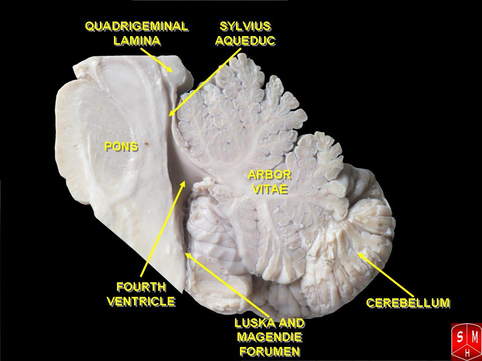 Rhombencephalon